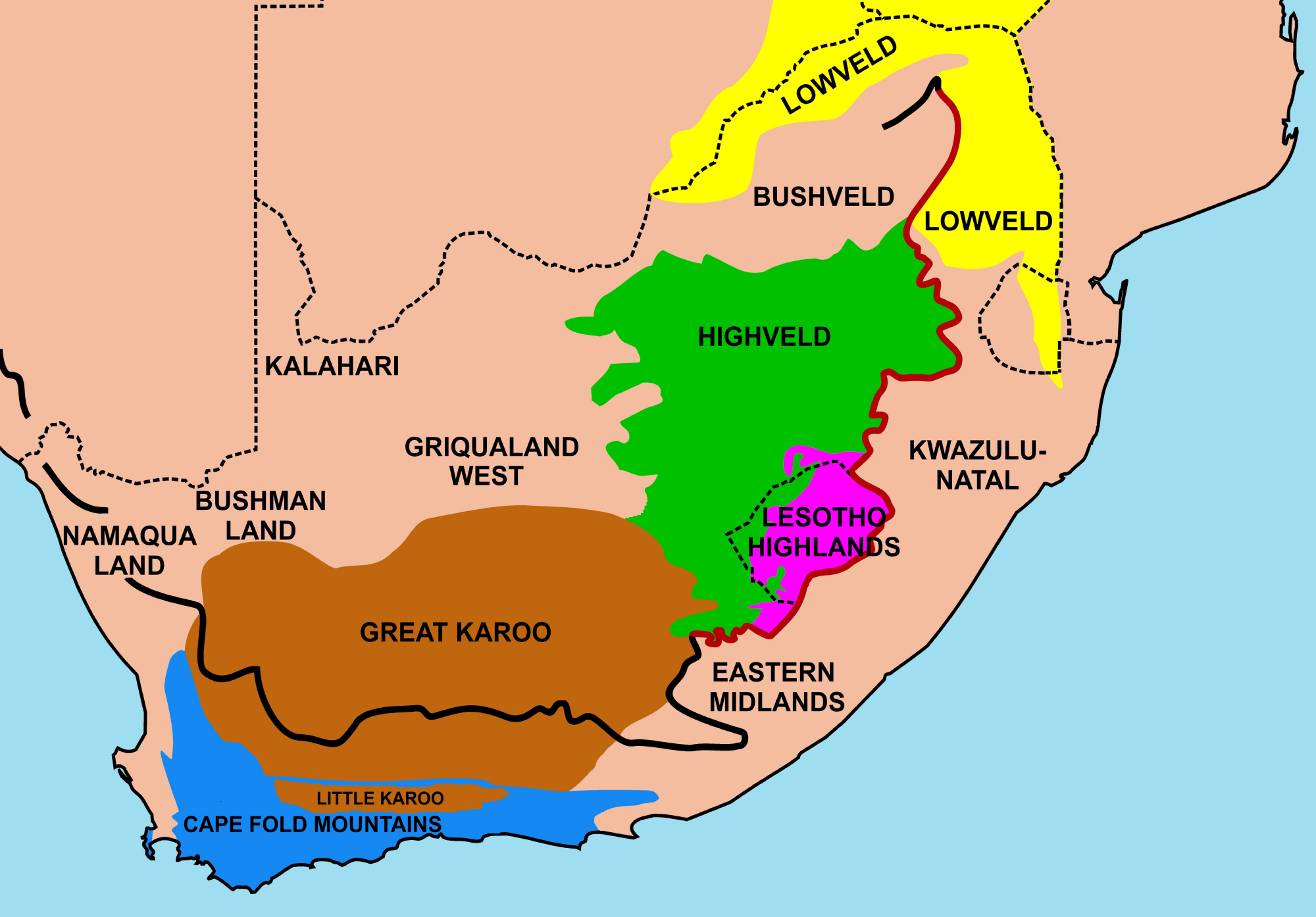 Map of the main regions of South Africa. The best known ones are colored in, the others are named as they would have been in an atlas. None of the regions has sharp clearly defined borders, except where a mountain range or the escarpment provides a clear boundary.